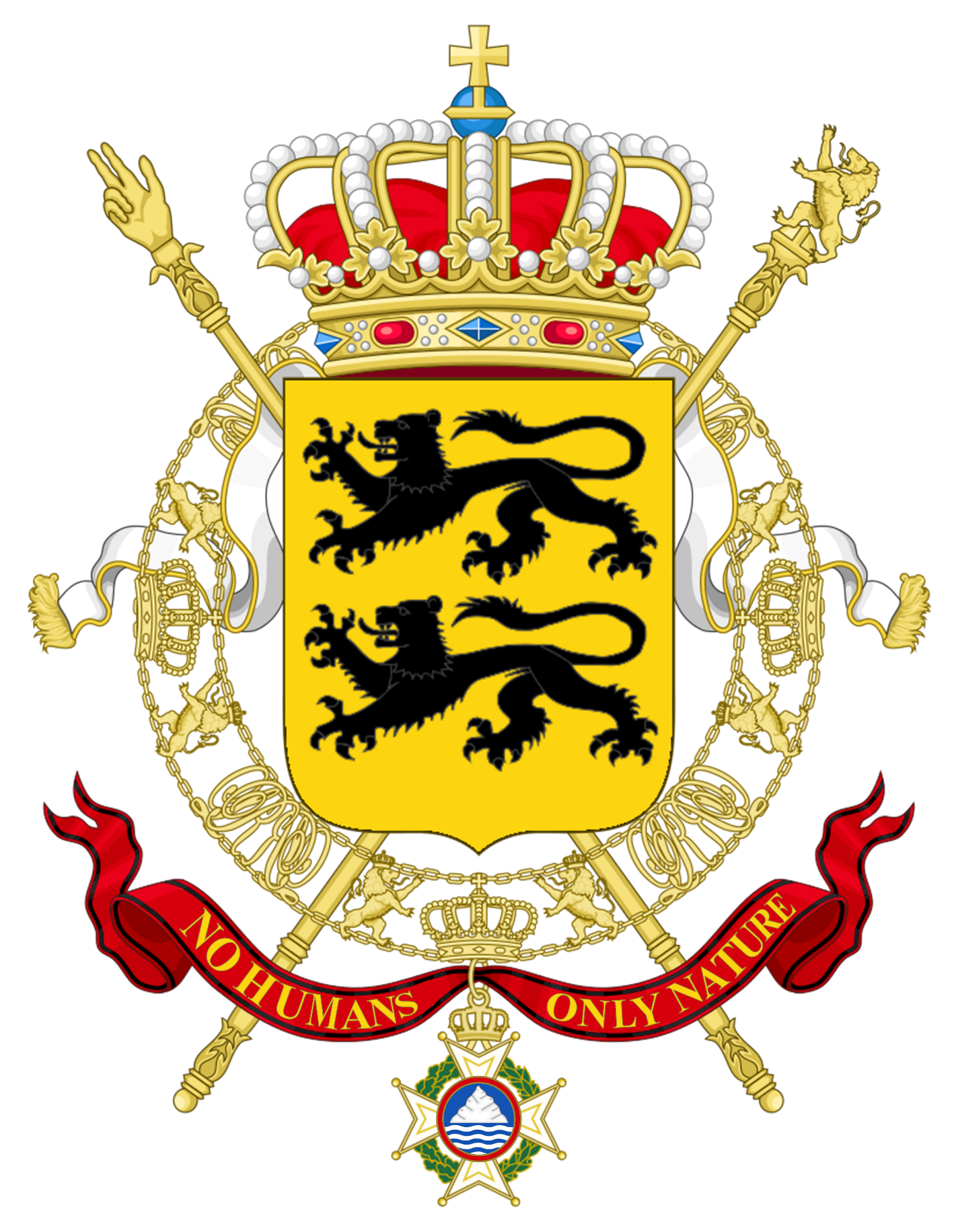 Coat of arms of Flandrensis